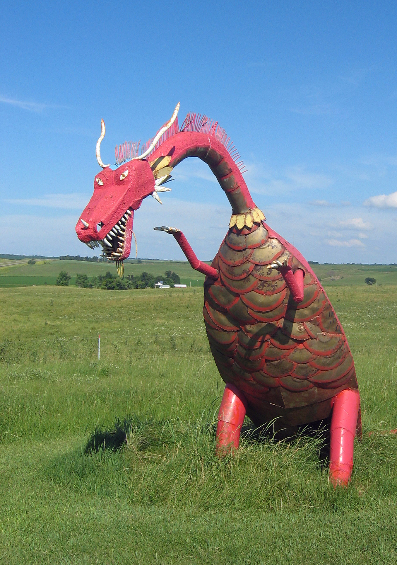 Metal Sculpture